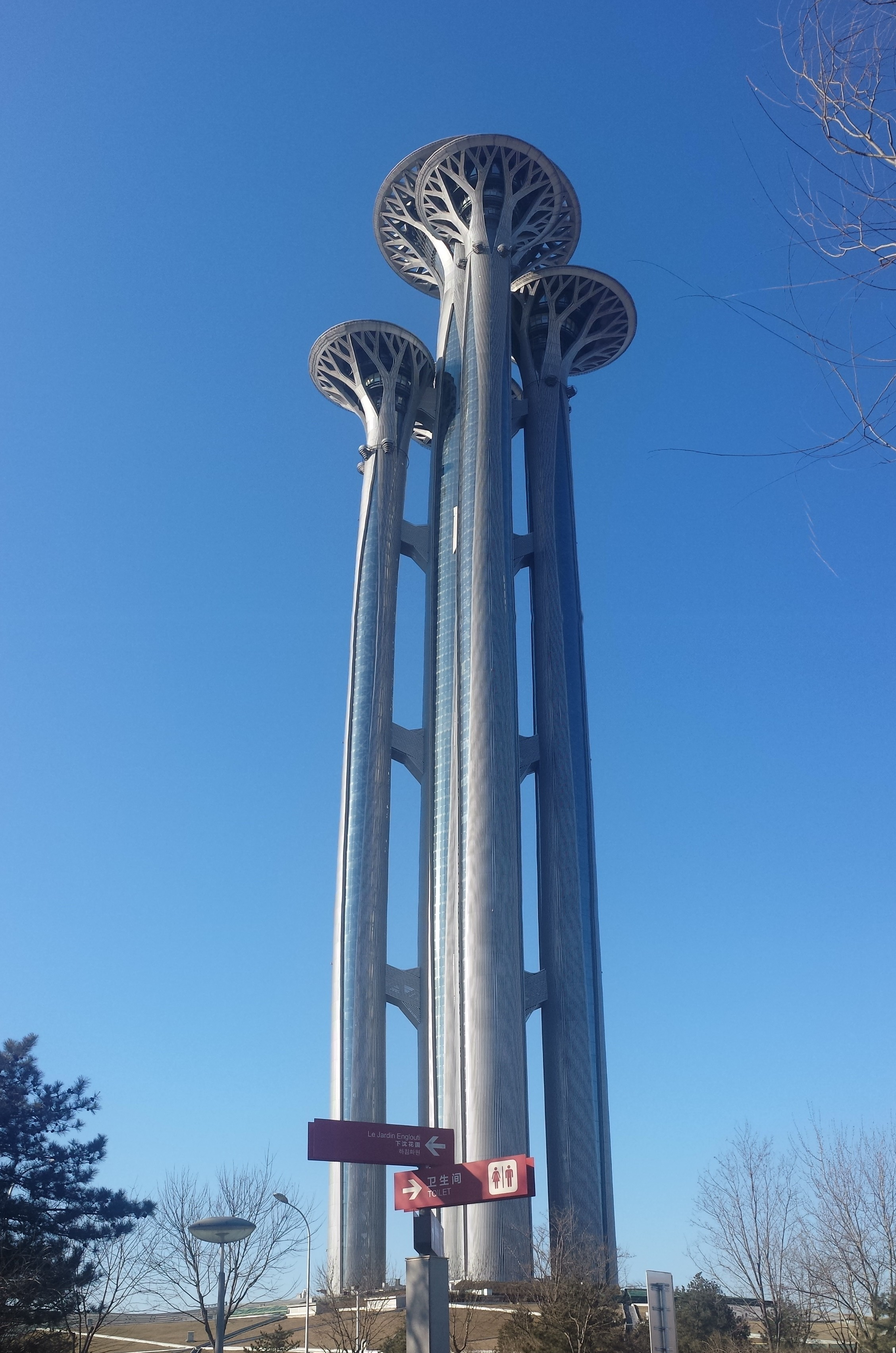 Olympic Park Observation Tower in Olympic green, Beijing